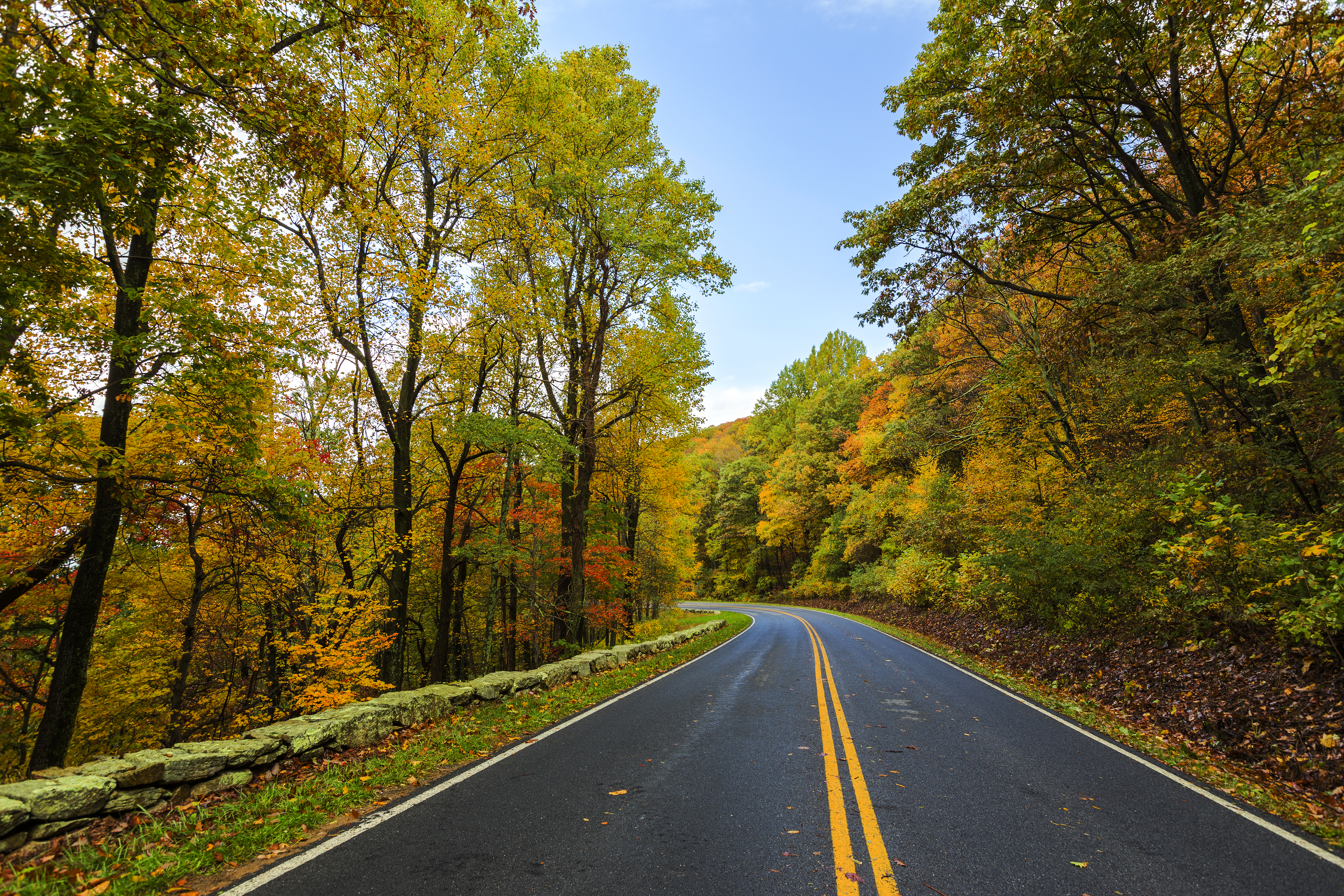 NPS | N. Lewis North District -- around mile 12